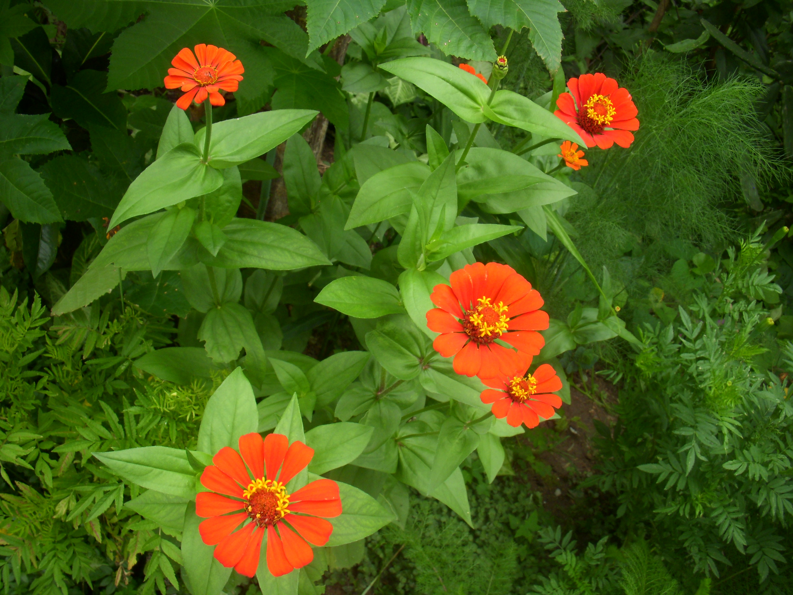 Zinnia elegans red plant